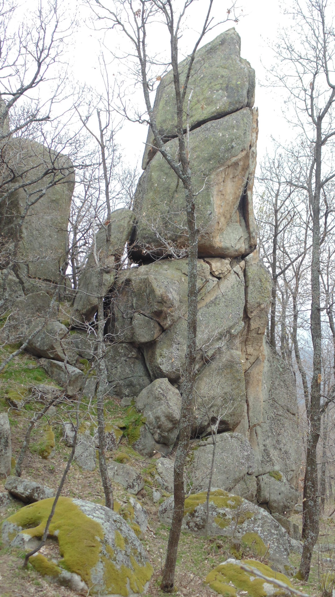 Kulata